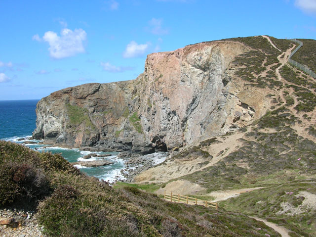 Sallys Bottom. Sallys Bottom is a small valley which dips down very low and is hard to walk up and down. There are some pretty sharp tall cliffs here (as the picture shows).